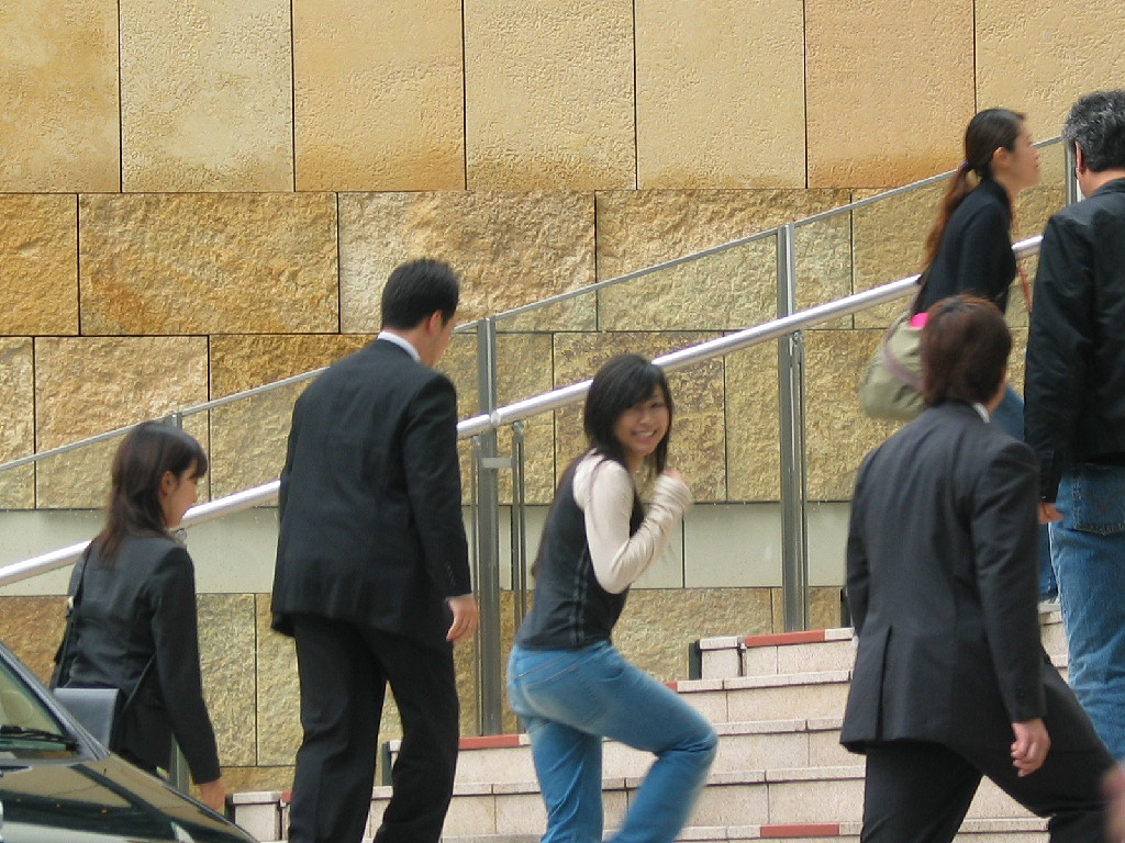 Hikaru Utada, japanese singer, at Kanto, 2004.0905G3_0105